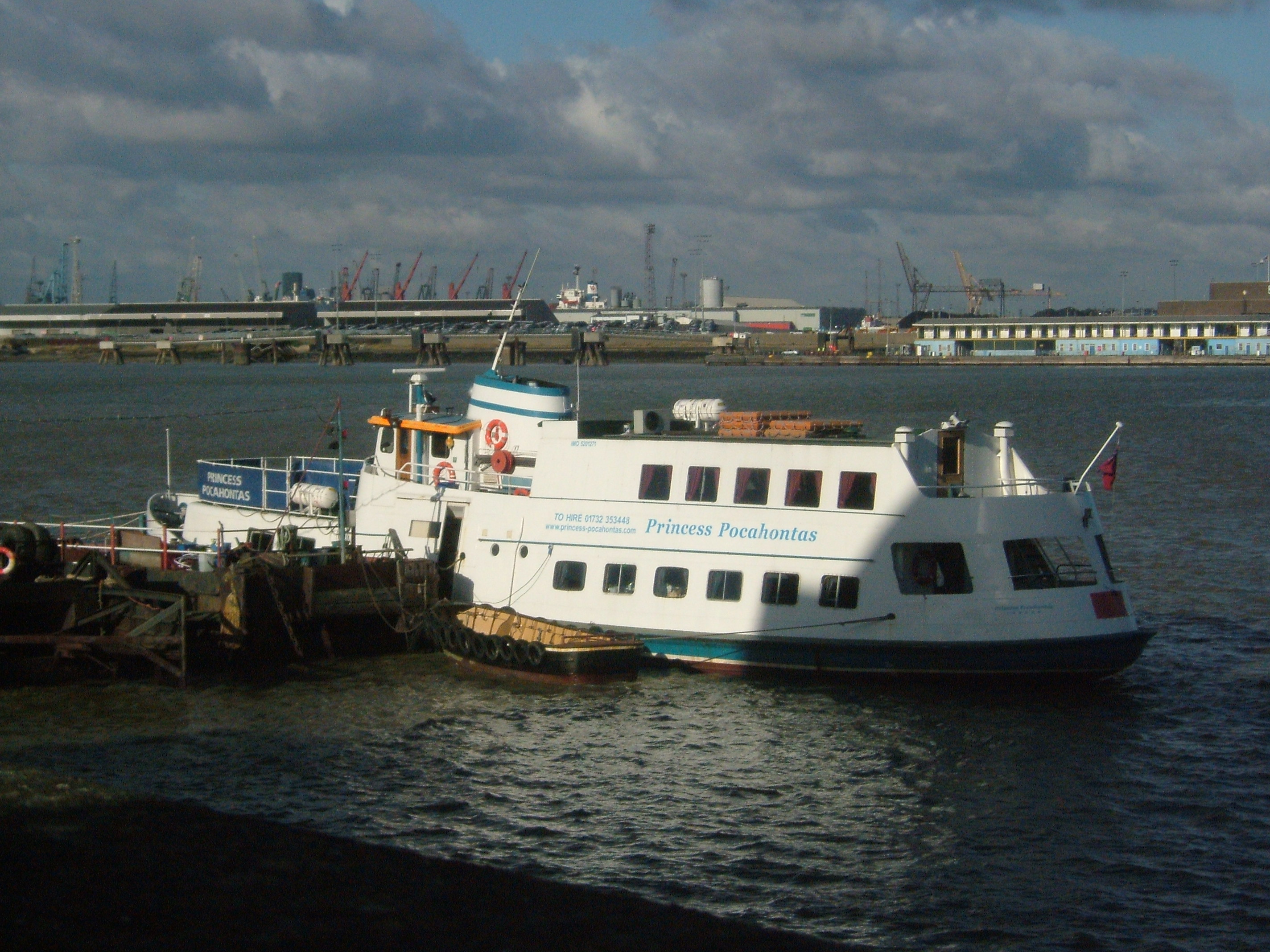 Gravesend is in North Kent, England on the River Thames. Lower Thames & Medway Passenger Boat Co vessel, MV Princess Pocahontas (110ft) moored at the Gravesend pier. In the background Tilbury Docks. IMO Number: 5201271 MMSI Number: 235034485 Callsign: MLDW6 Length: 30 m Beam: 7 m